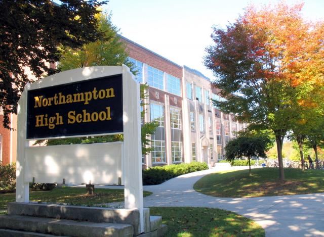 photo of front of Northampton High School (Massachusetts)